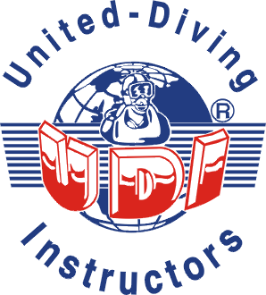 United Diving Instructors Česky: United Diving Instructors